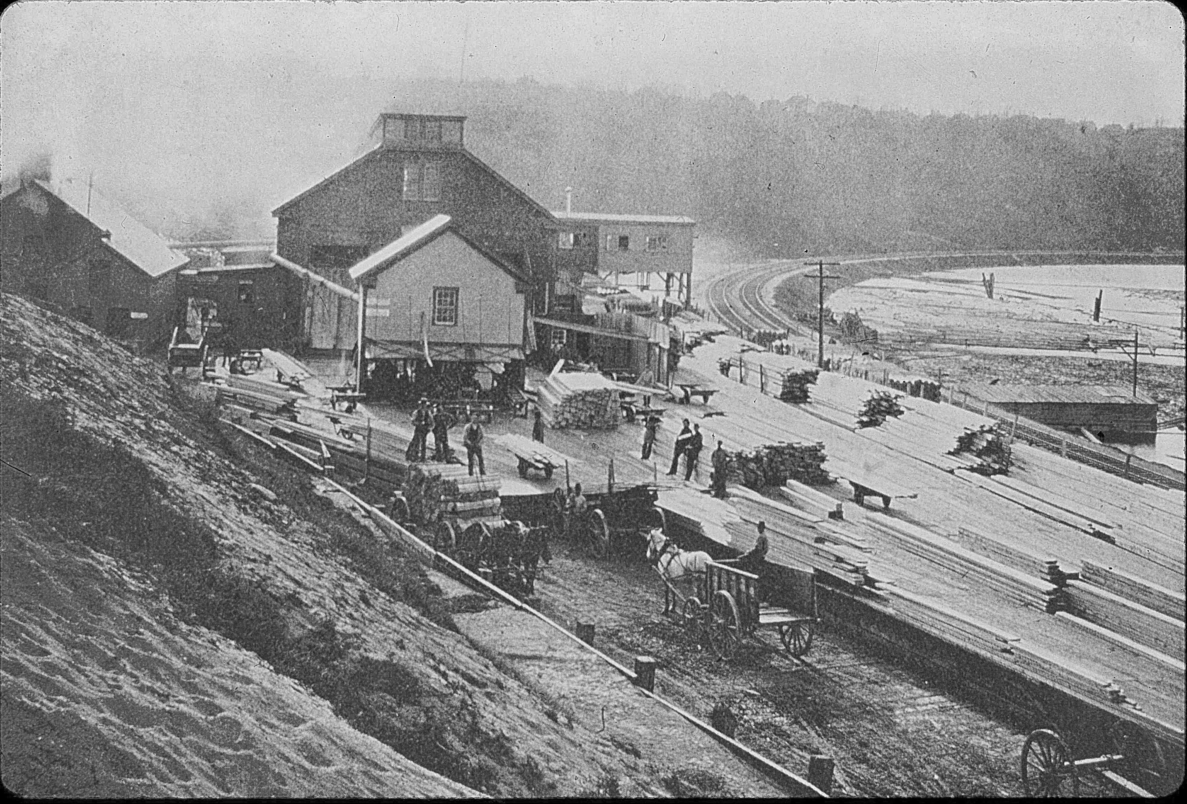 A photograph of the Connecticut River Lumber Company's mills on the banks of Log Pond Cove on the Connecticut River in Holyoke, Massachusetts.